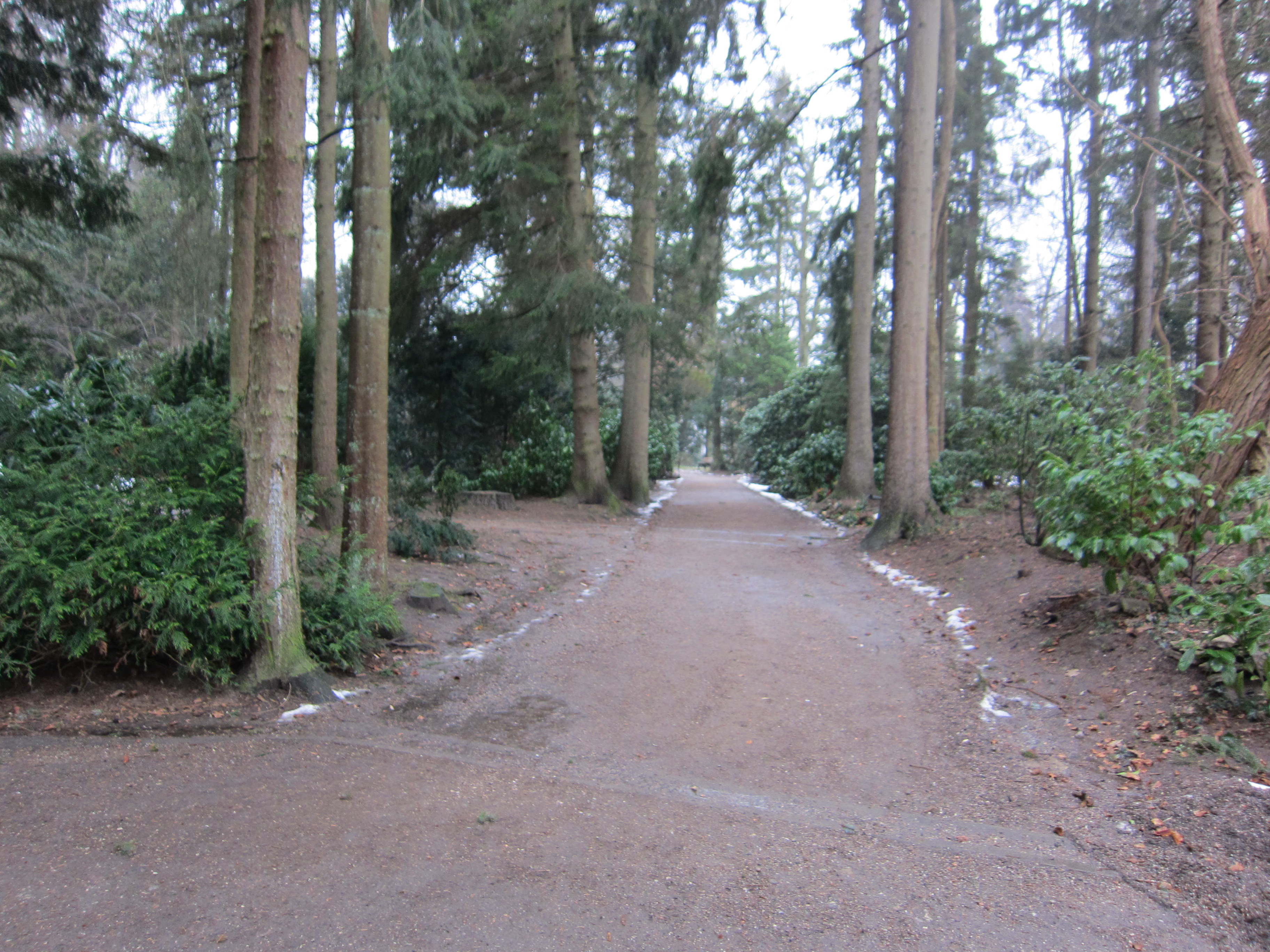 Cemetery Kiel-Russee